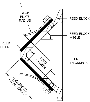 Diagram of a reed valve. Reed petals are of some flexible material (often rubber), reed blocks secure them in place, stop plates prevent them from opening too widely.